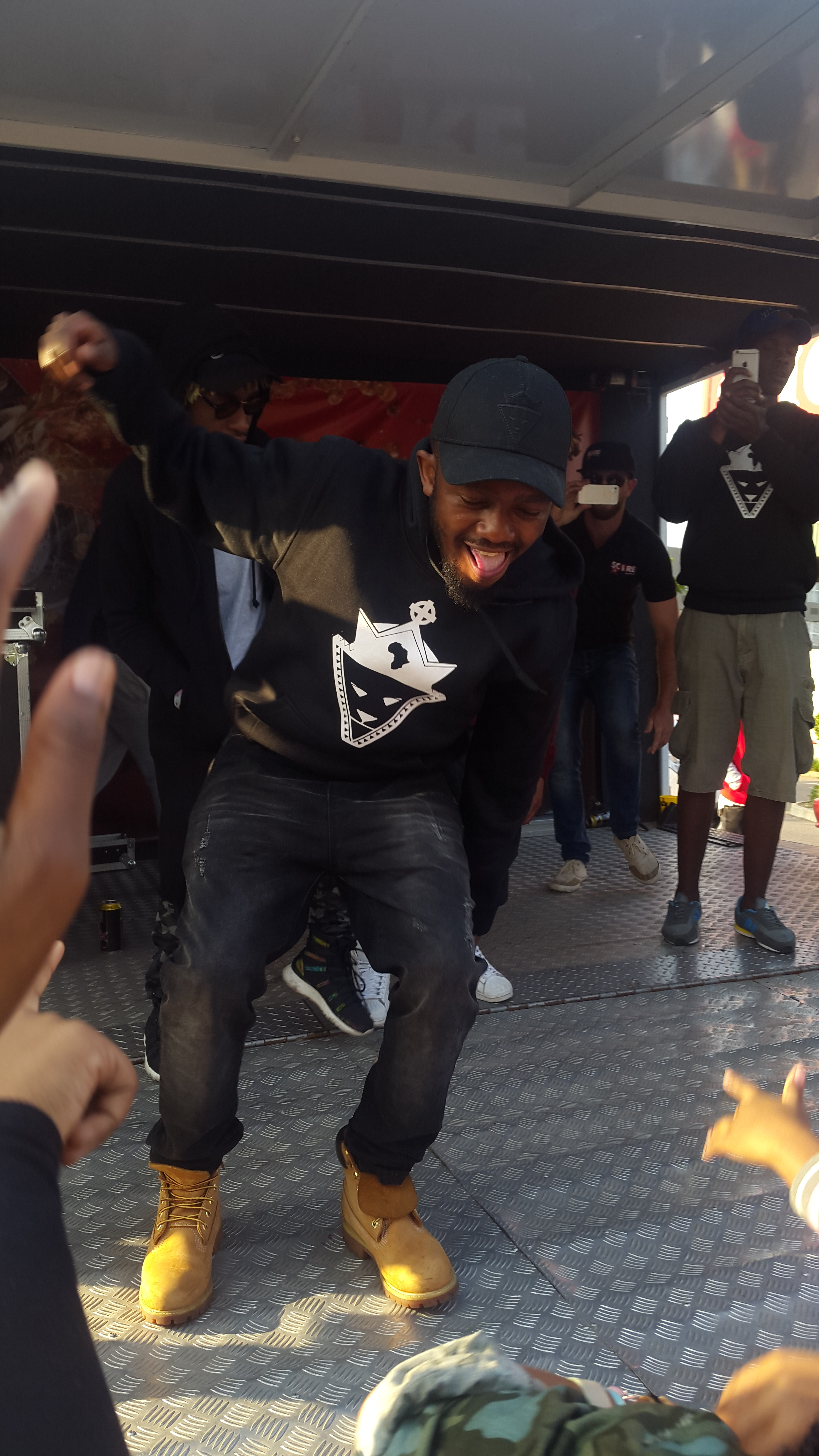 Kwesta Perfoming at City-View in Durban